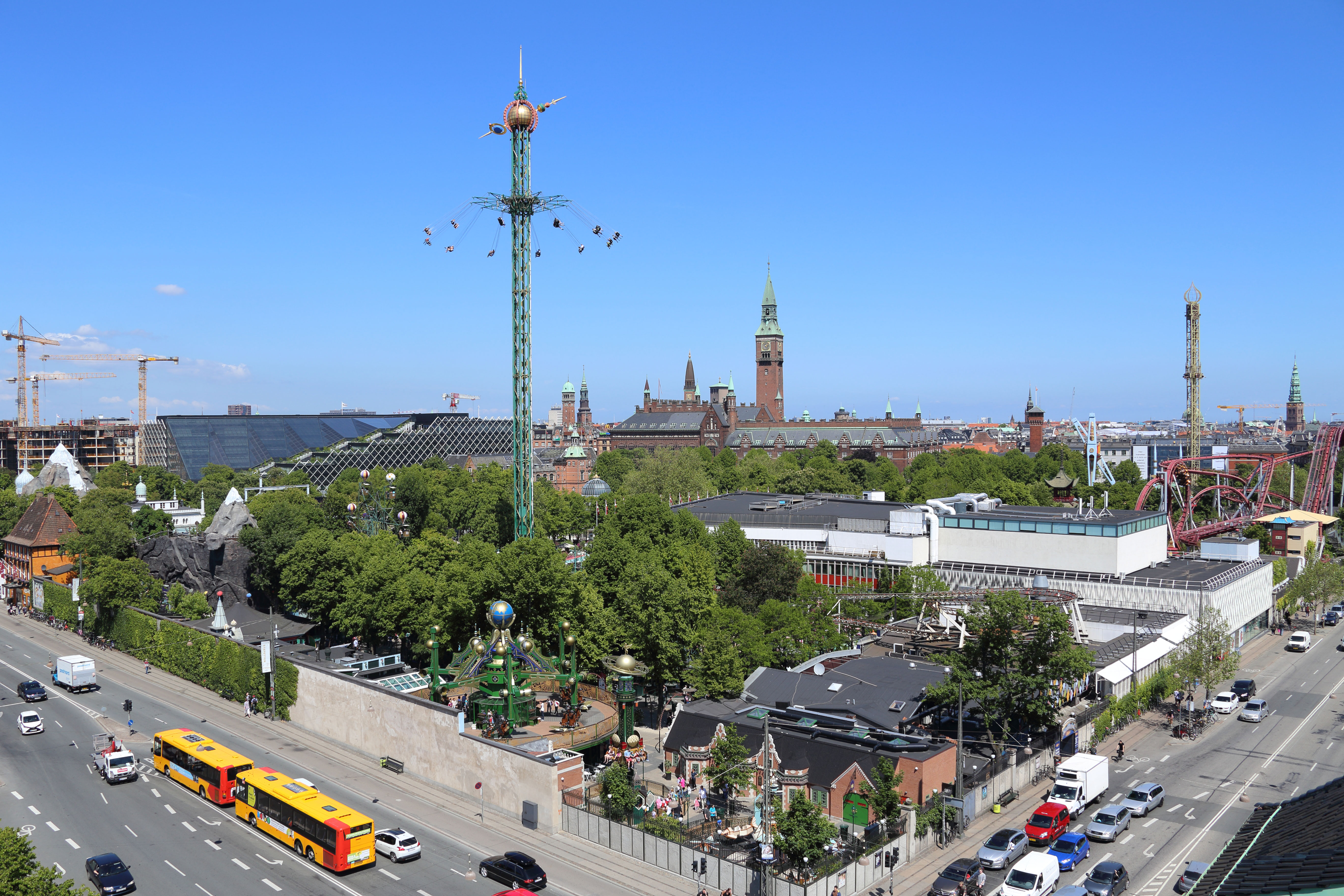 Birds view of Tivoli Gardens, Copenhagen, Denmark.